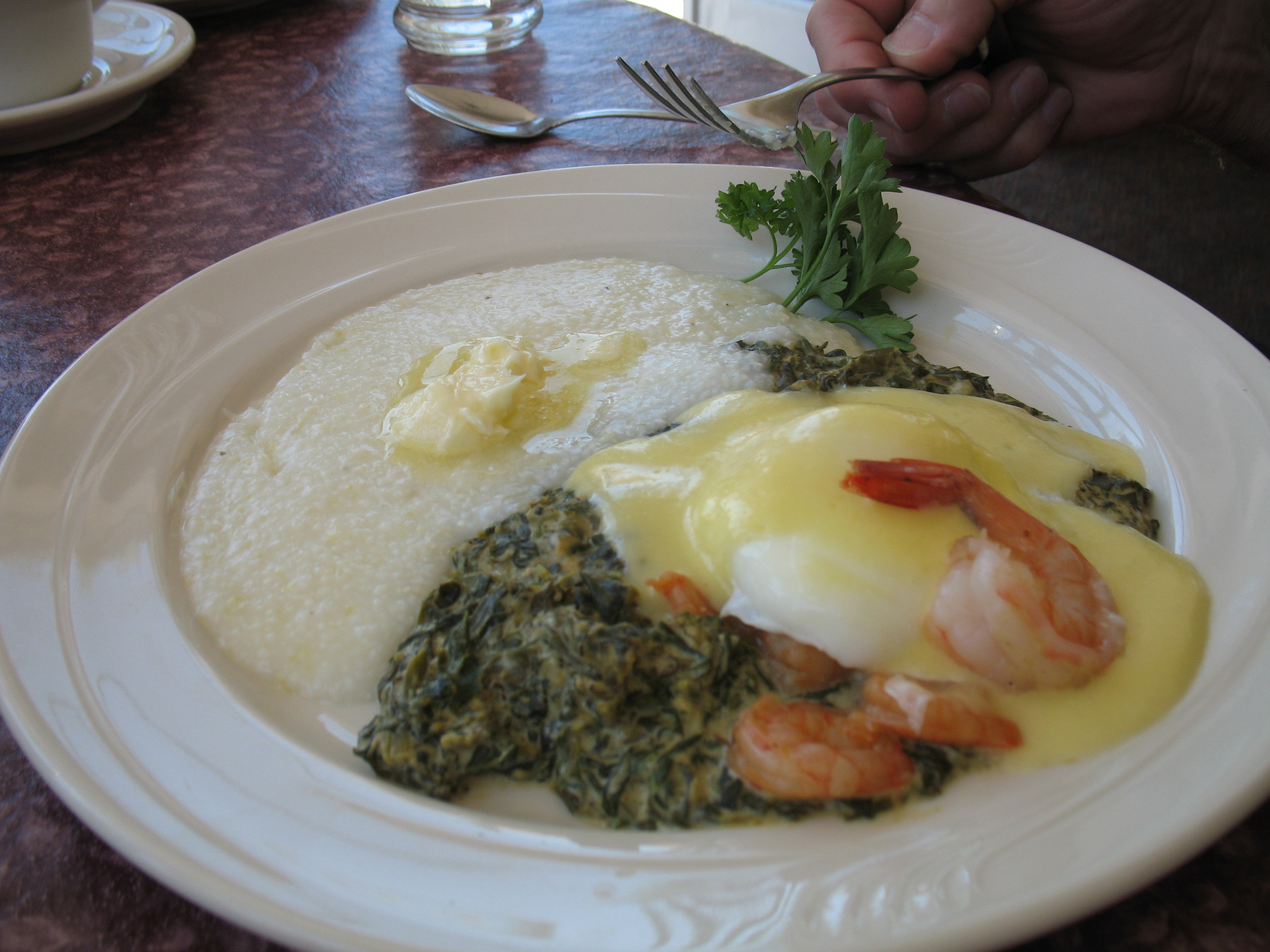 Poached eggs, creamed spinach, gulf shrimp, Hollandaise sauce, with grits.